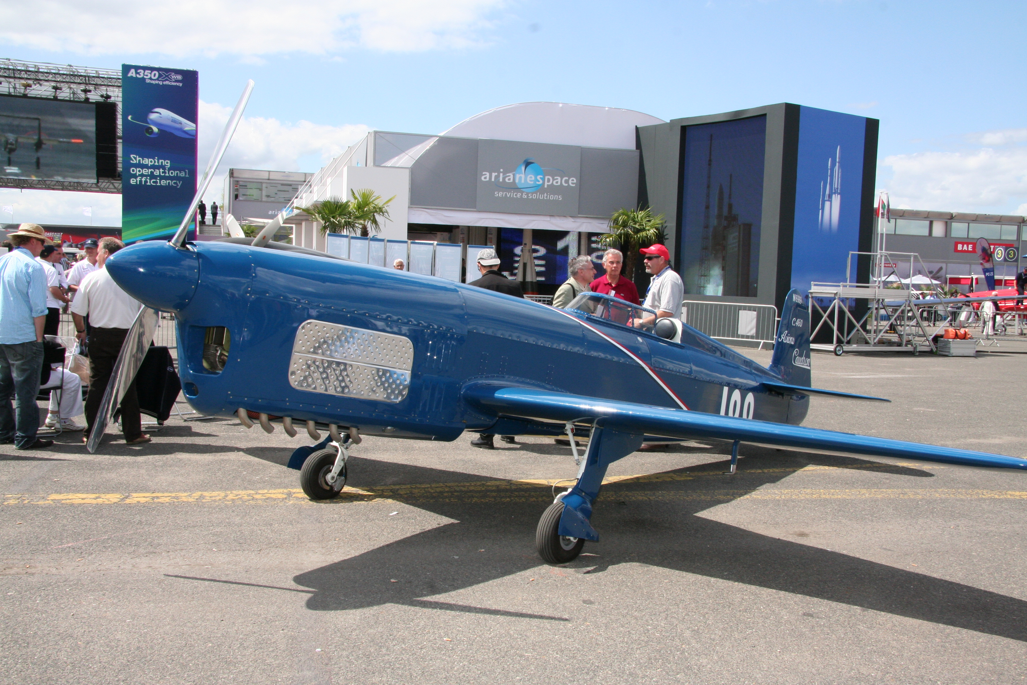 Caudron C.460 Rafale - Paris Air Show 2009